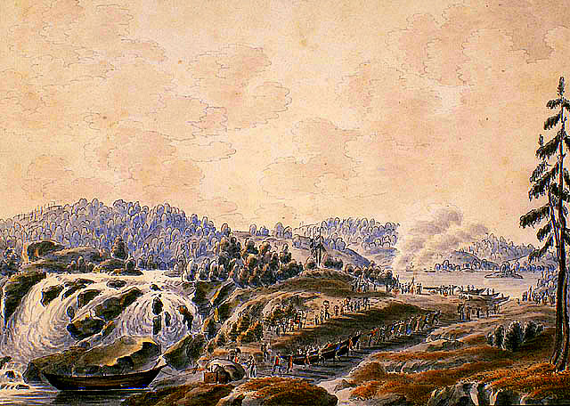 In 1821 Rindisbacher travelled from York Factory to the Red River Settlement in a York boat which could be equipped with a sail. In this watercolour, he illustrates how these large boats were transported over a portage.